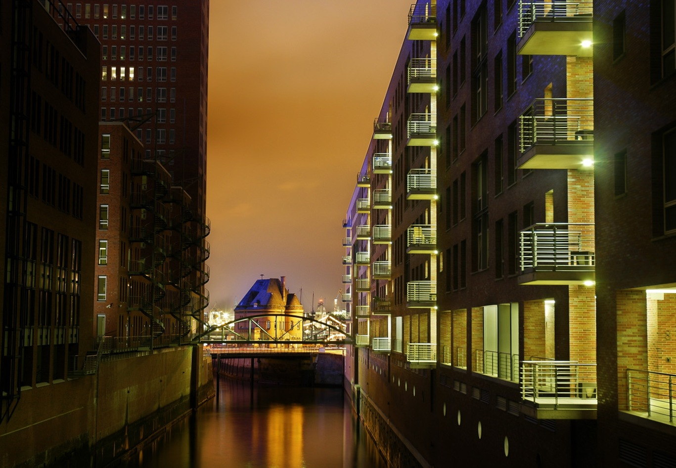 The old police station and part of the Hanseatic Trade Center (on the right) in the famous Speicherstadt in Hamburg at night.